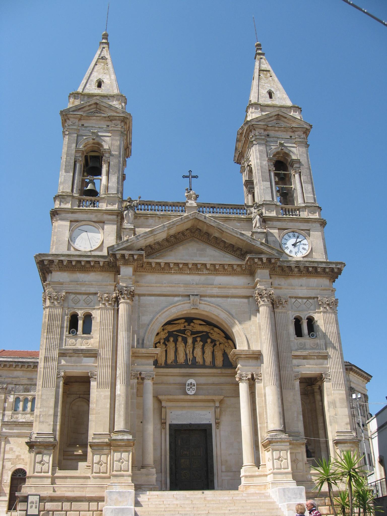 Santi Cosma e Damiano church